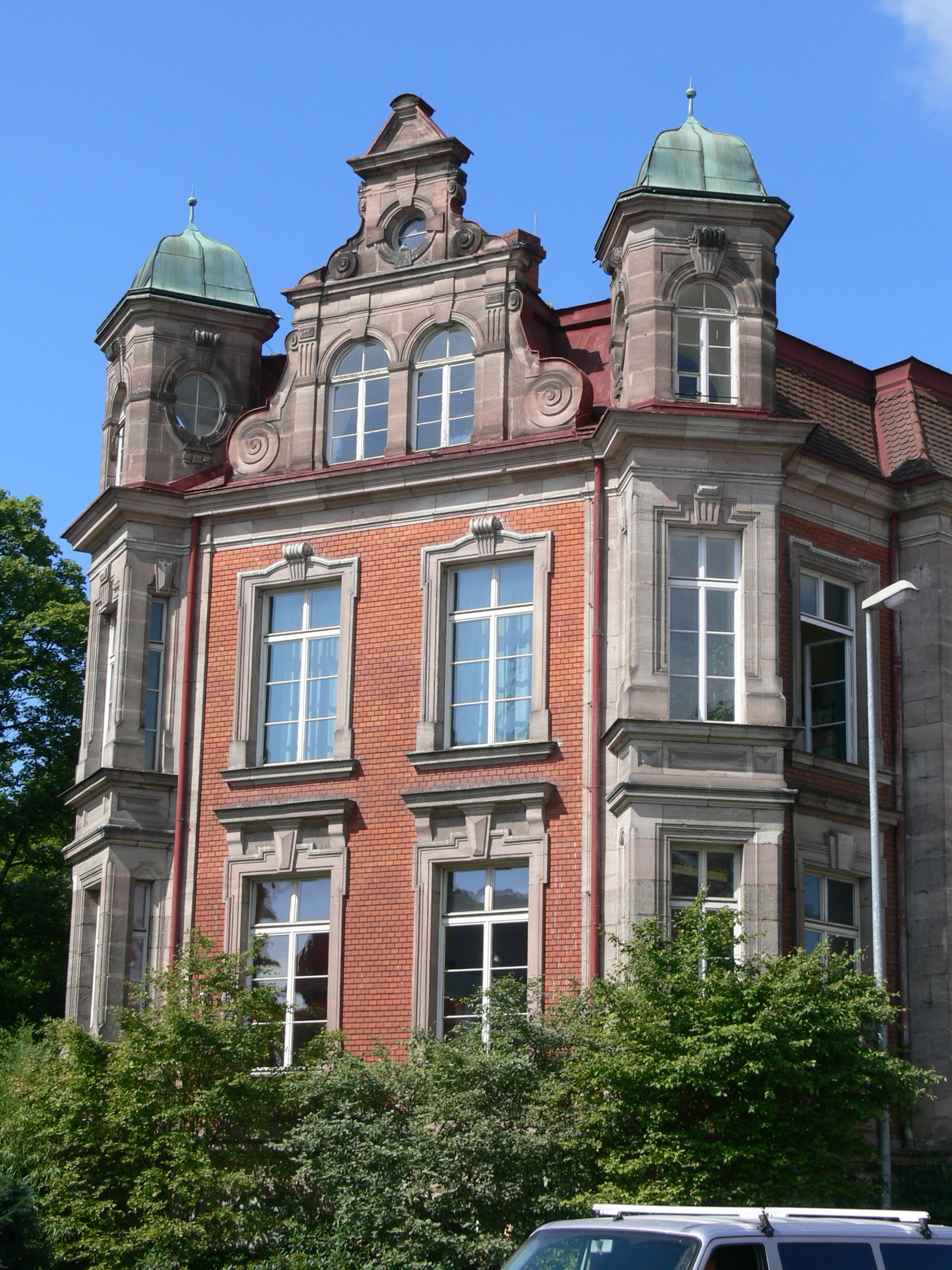 Schwabach. Adam - Kraft - Gymnasium: First building ( 1901-1904 )